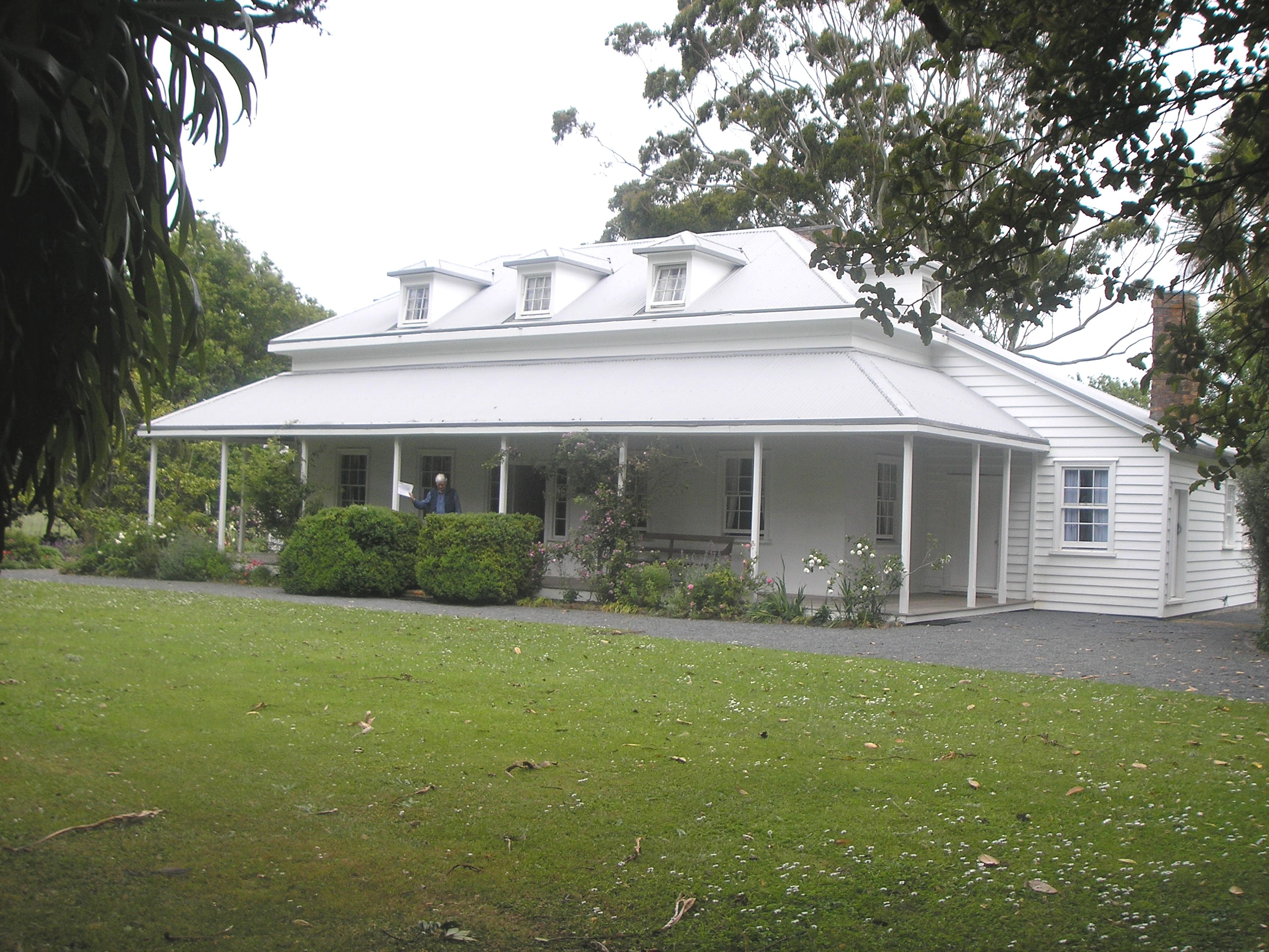 Te Waimate Mission House, New Zealand. Taken by the author 2006 Winstonwolfe 02:56, 30 November 2006 (UTC). New Zealand Historic Places Trust Register number: 3.